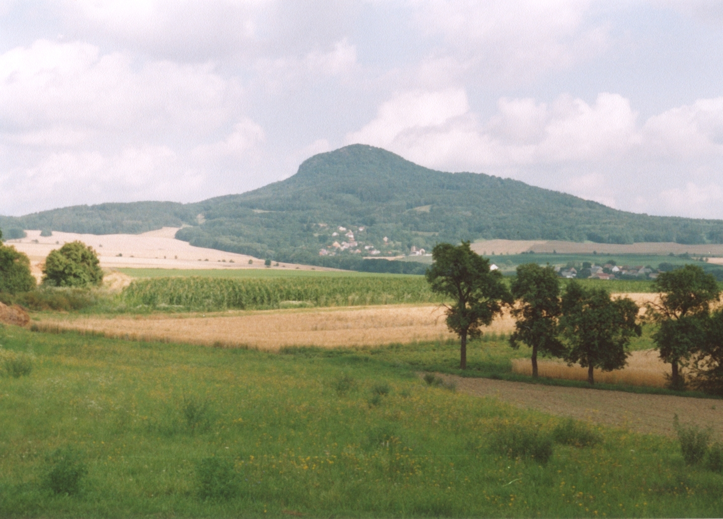 Sedlo Hill from Chotiněves, Ústí nad Labem Region, Czech republic